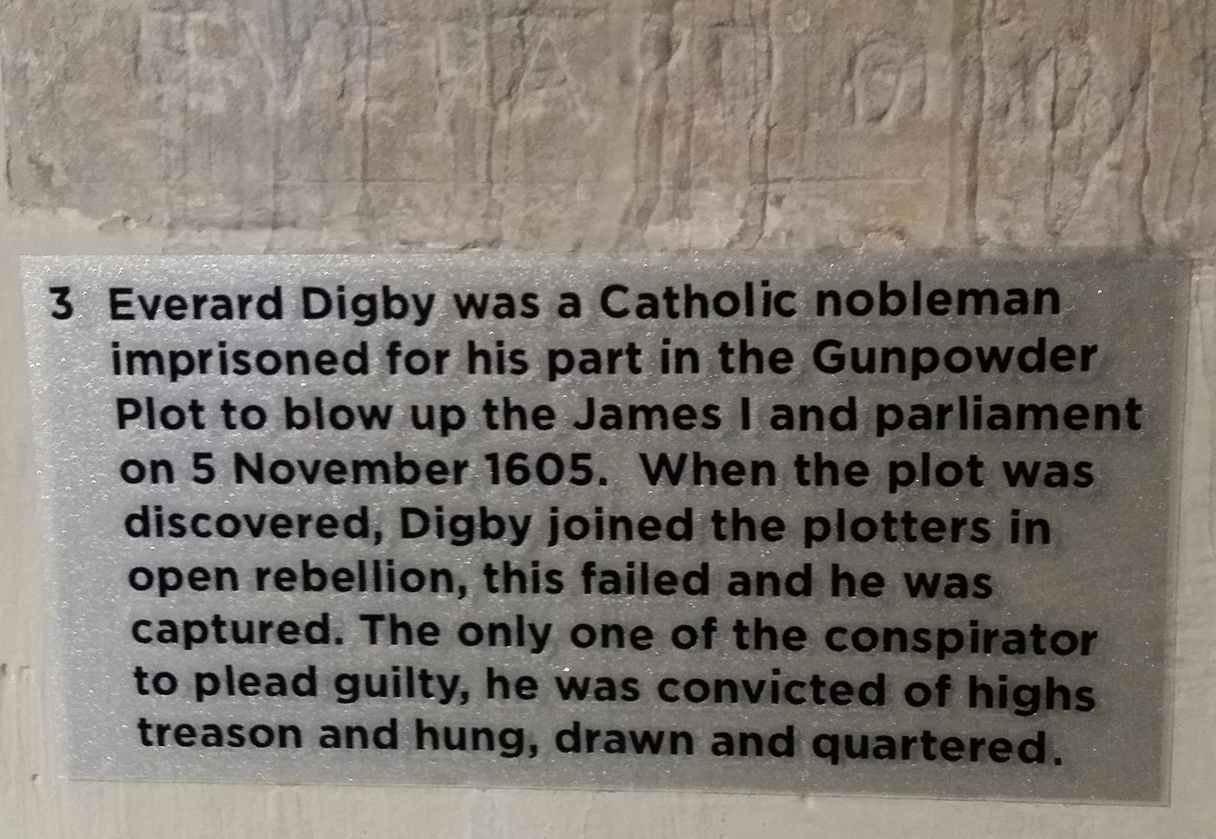 Everard Digby's inscription in the Tower of London, probably made by Digby himself in either late 1605 or early 1606 while being incarcerated.